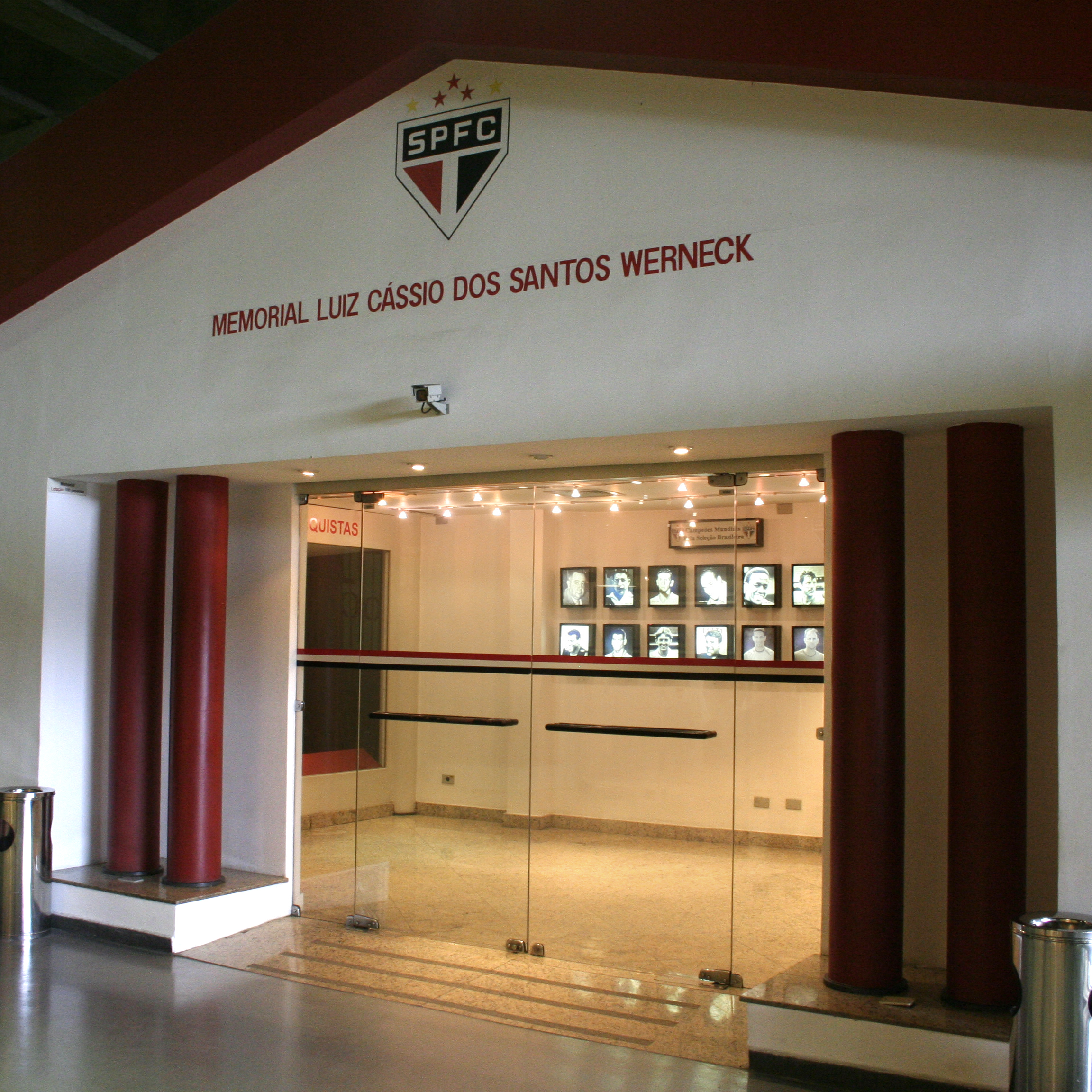 frontage photo of the Luiz Cássio dos Santos Werneck memorial, located in the Cícero Pompeu de Toledo stadium, known as Morumbi.